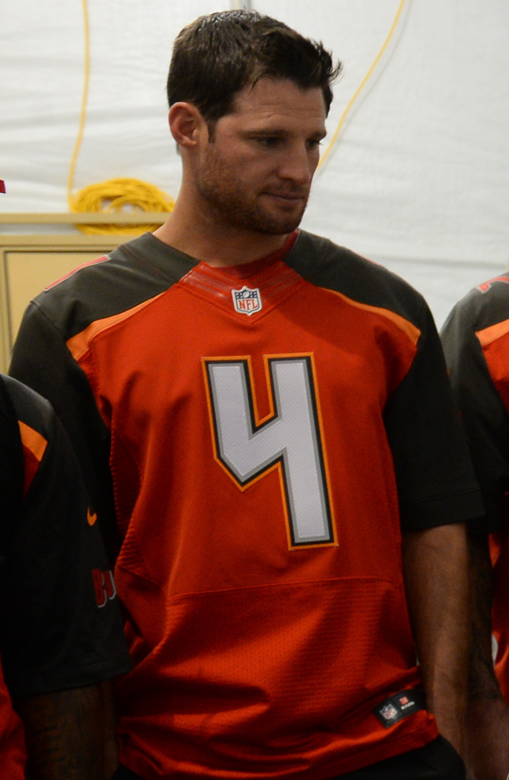 U.S. Air Force Tech. Sgt. Brian Jones, assistant security forces flight chief for U.S. Special Operations Command Deployment Cell, demonstrates weapons and tactical gear for the Tampa Bay Buccaneers during their visit to MacDill Air Force Base in Tampa, Fla., Nov. 7, 2017. The football players and cheerleaders toured USSOCOM and other base facilities to meet with currently serving personnel and to experience a glimpse of military life. (Photo by U.S. Air Force Master Sgt. Barry Loo)